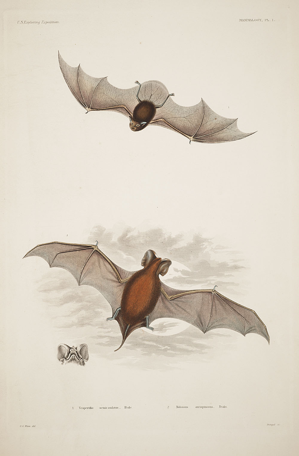 Plate 1 of Mammalogy section in Mammalogy and Ornithology.